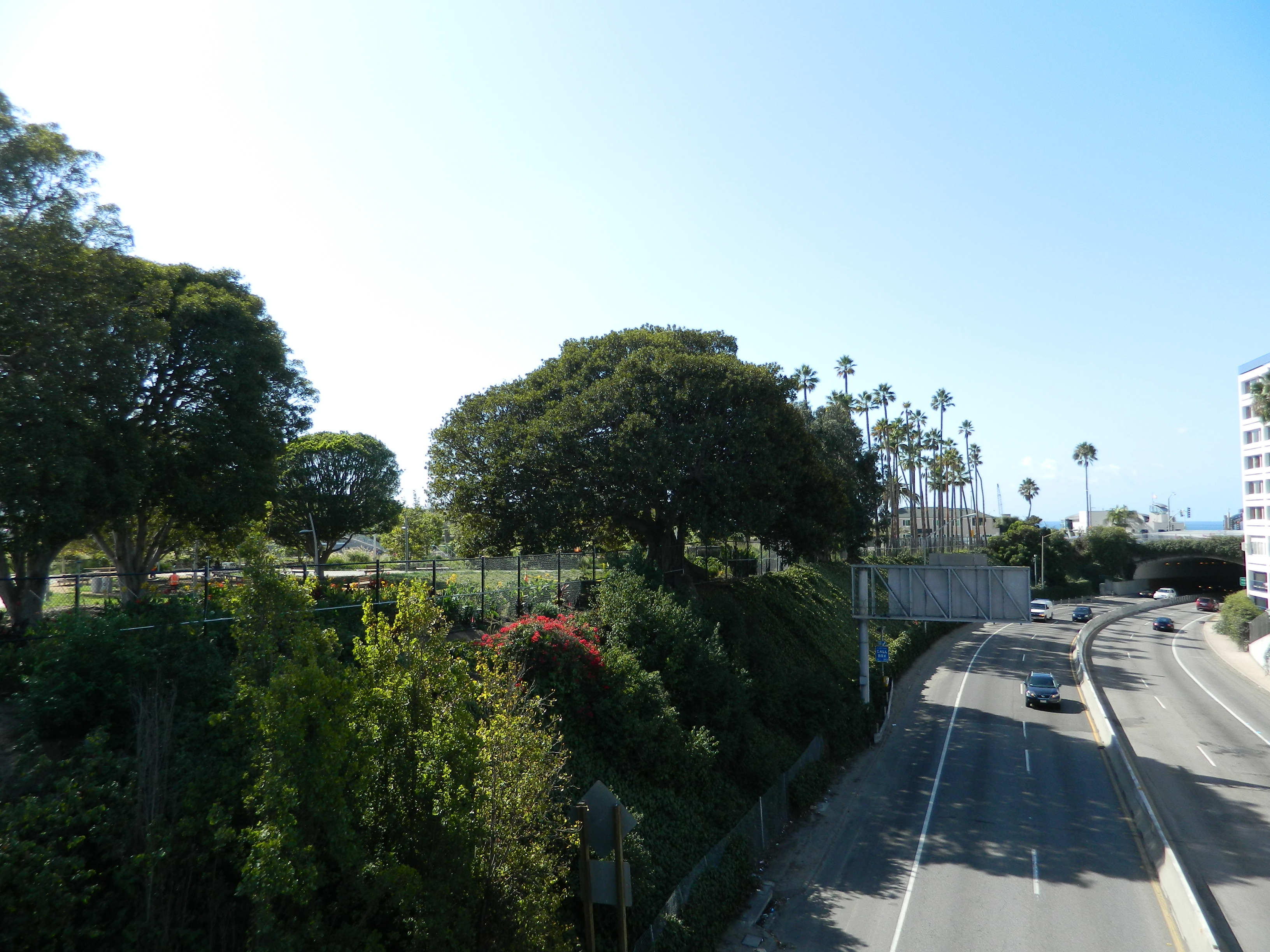 McClure Tunnel between Pacific Coast Highway and the 10 freeway in Santa Monica, California, USA Category:Santa Monica